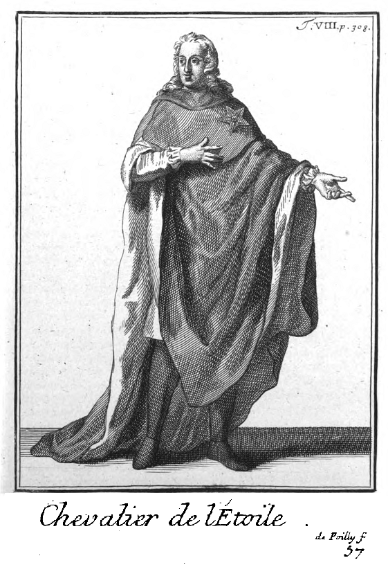 Reconstruction of the ceremony cloth of a Knight of the Order of the Star in "Histoire des ordres monastiques, religieux et militaires, et des congregations seculieres de l'un & l'autre sexe, qui ont esté establies jusque'à present"